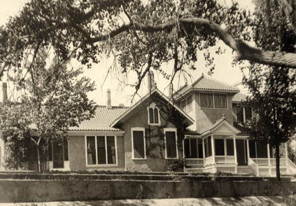 The House of Franklin Bond, After his addition to the adobe house 1920, Bond made the house have a 'Victorian' look.